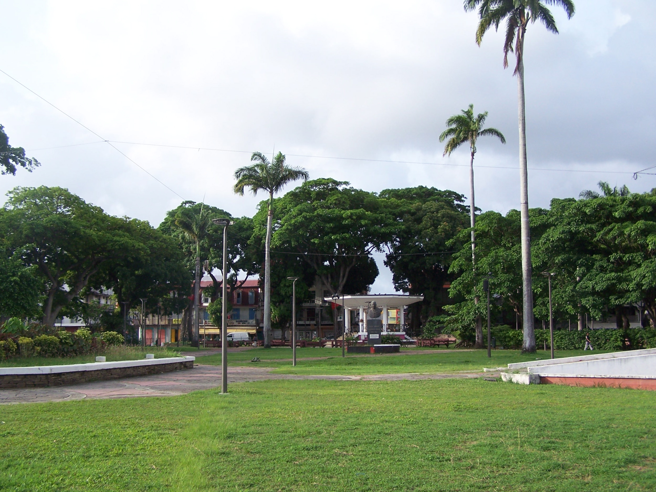 Place de la Victoire de Pointe-à-Pitre